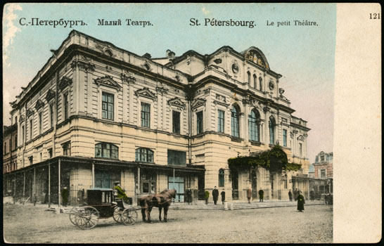 Saint Petersburg (Russia), Fontanka. Small Theater.